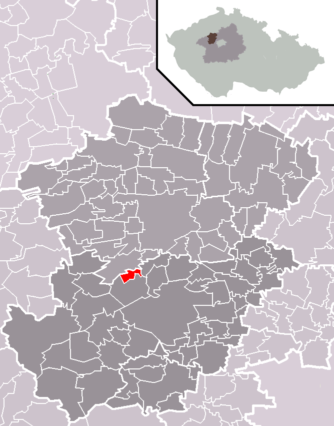 Location of Svinařov municipality within Kladno District and administrative area of Kladno as a Municipality with Extended Competence.